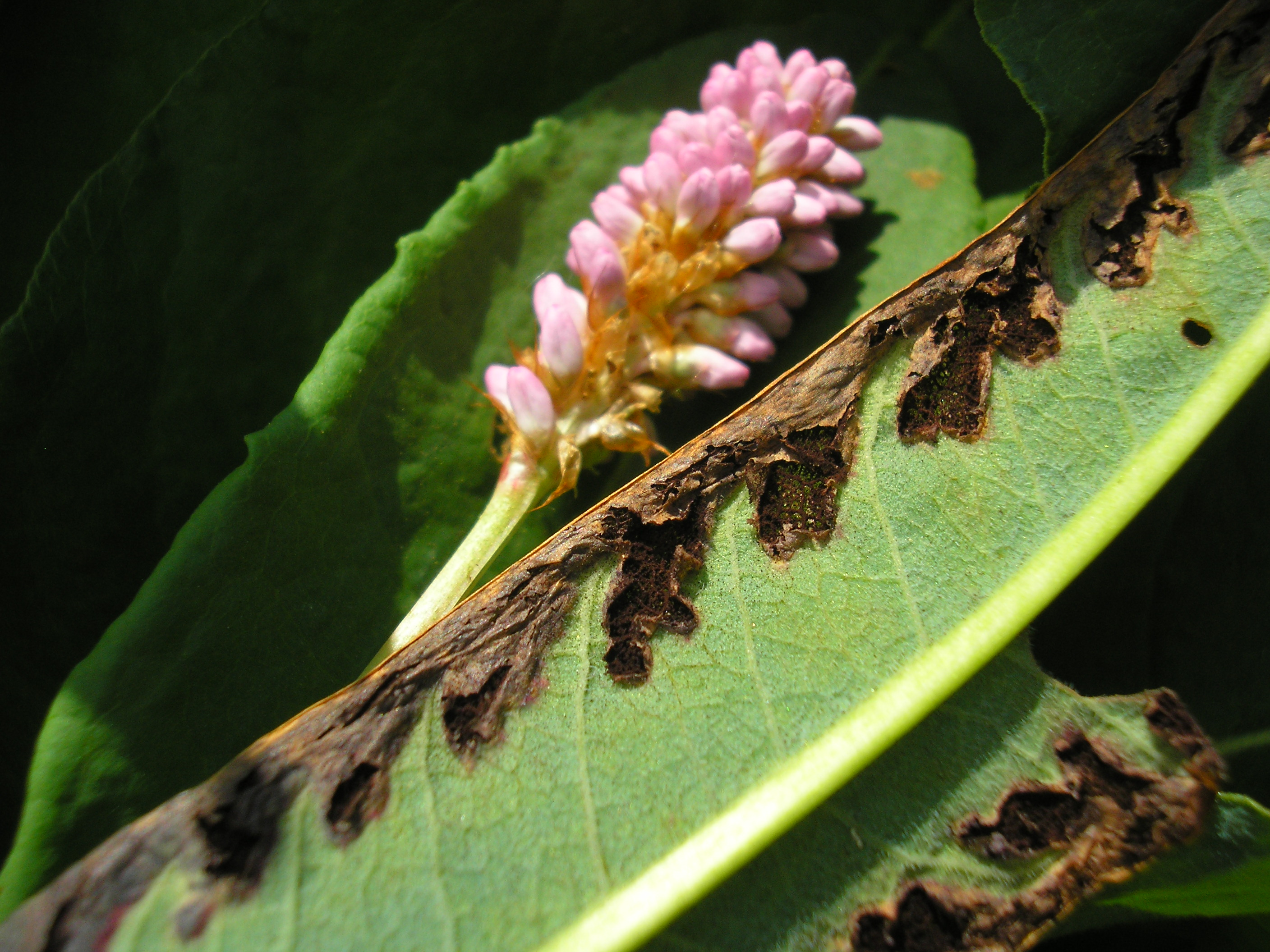 Smut fungi Microbotryum marginale on Bistorta officinalis